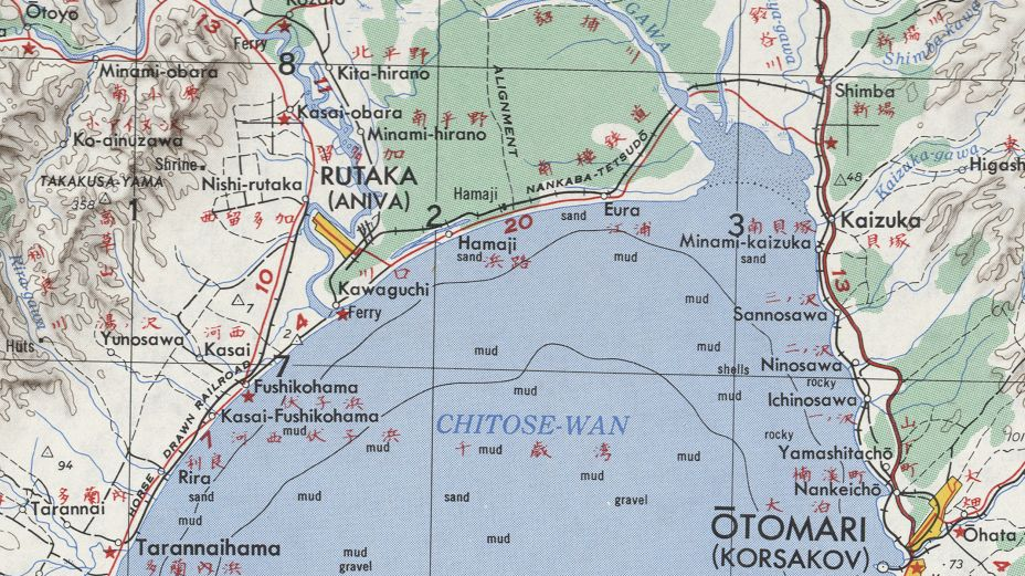 List from Eastern Siberia AMS Topographic Maps. Series N504, U.S. Army Map Service, 1947